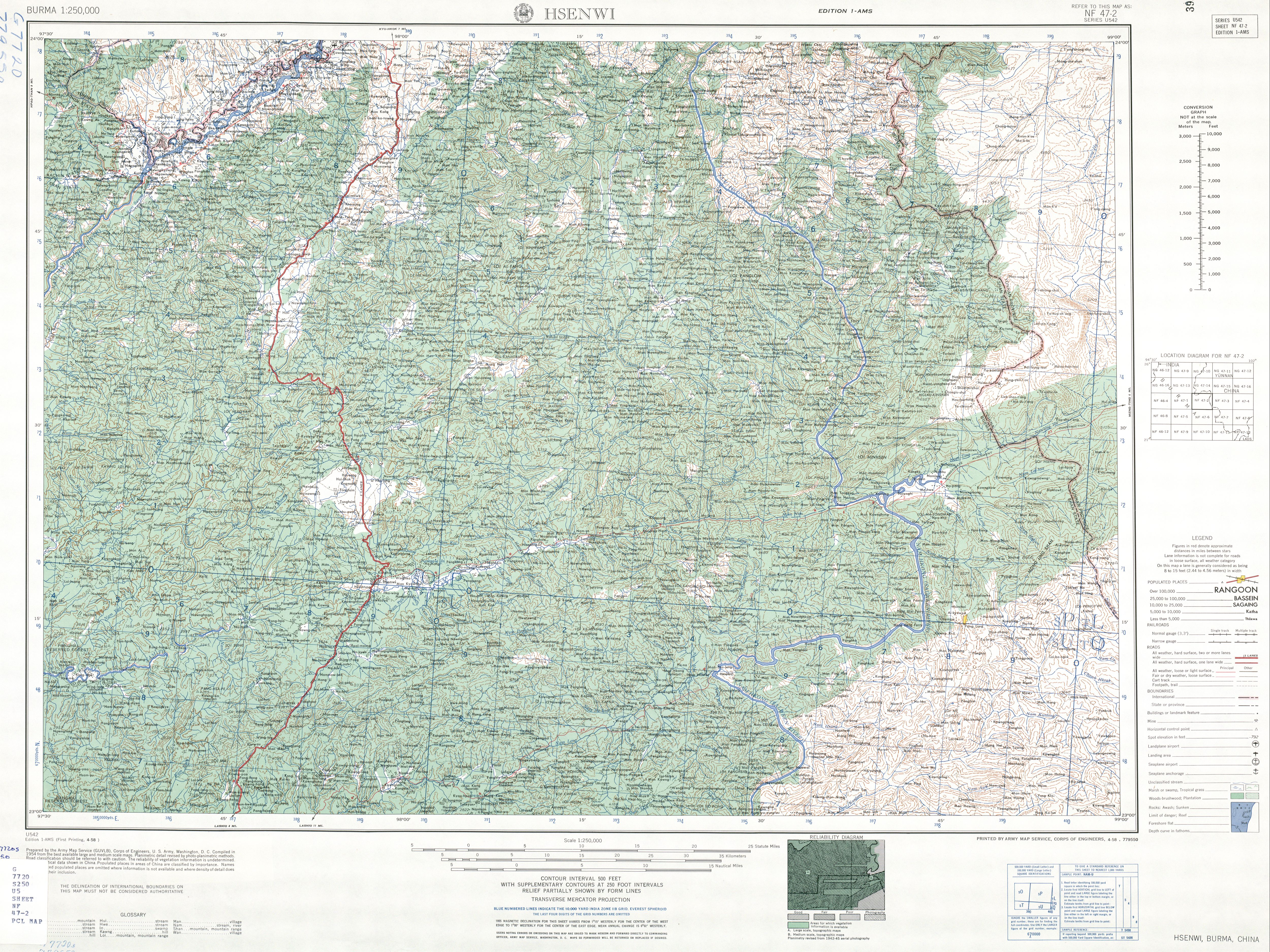 Burma AMS Topographic Maps